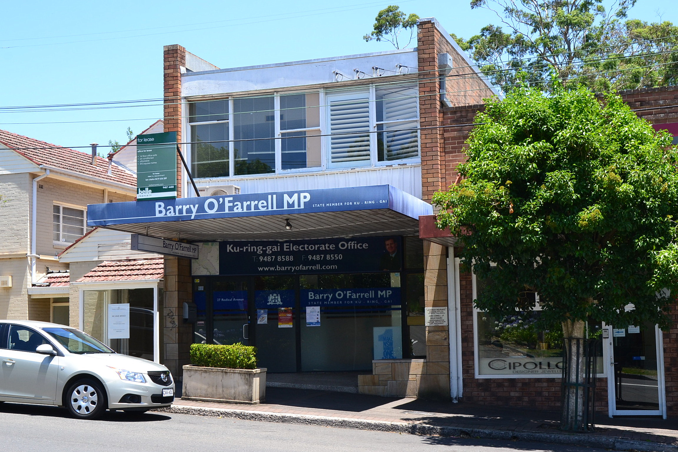 Barry O'Farrell's office, Wahroonga, Sydney